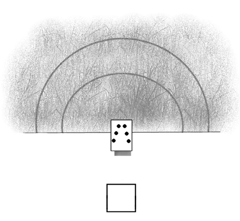 Graphic for Katxete